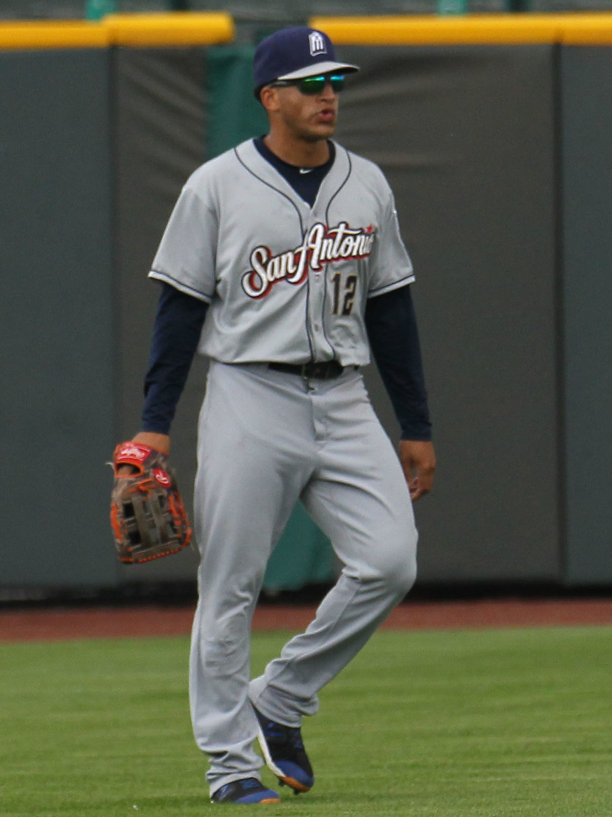 Trent Grisham of the San Antonio Missions watches a teammate attempts to catch a popup during a 2019 game at Werner Park in Nebraska